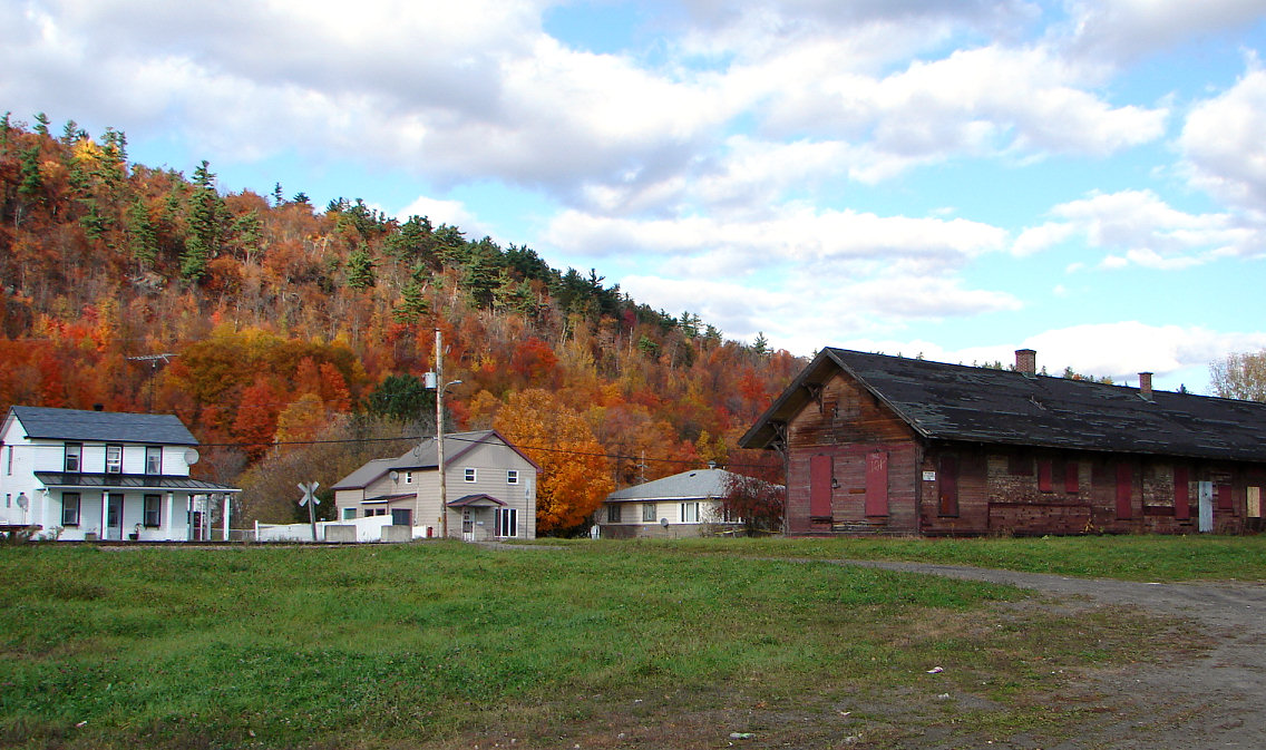 Calumet (municipality Grenville-sur-la-Rouge), Quebec, Canada